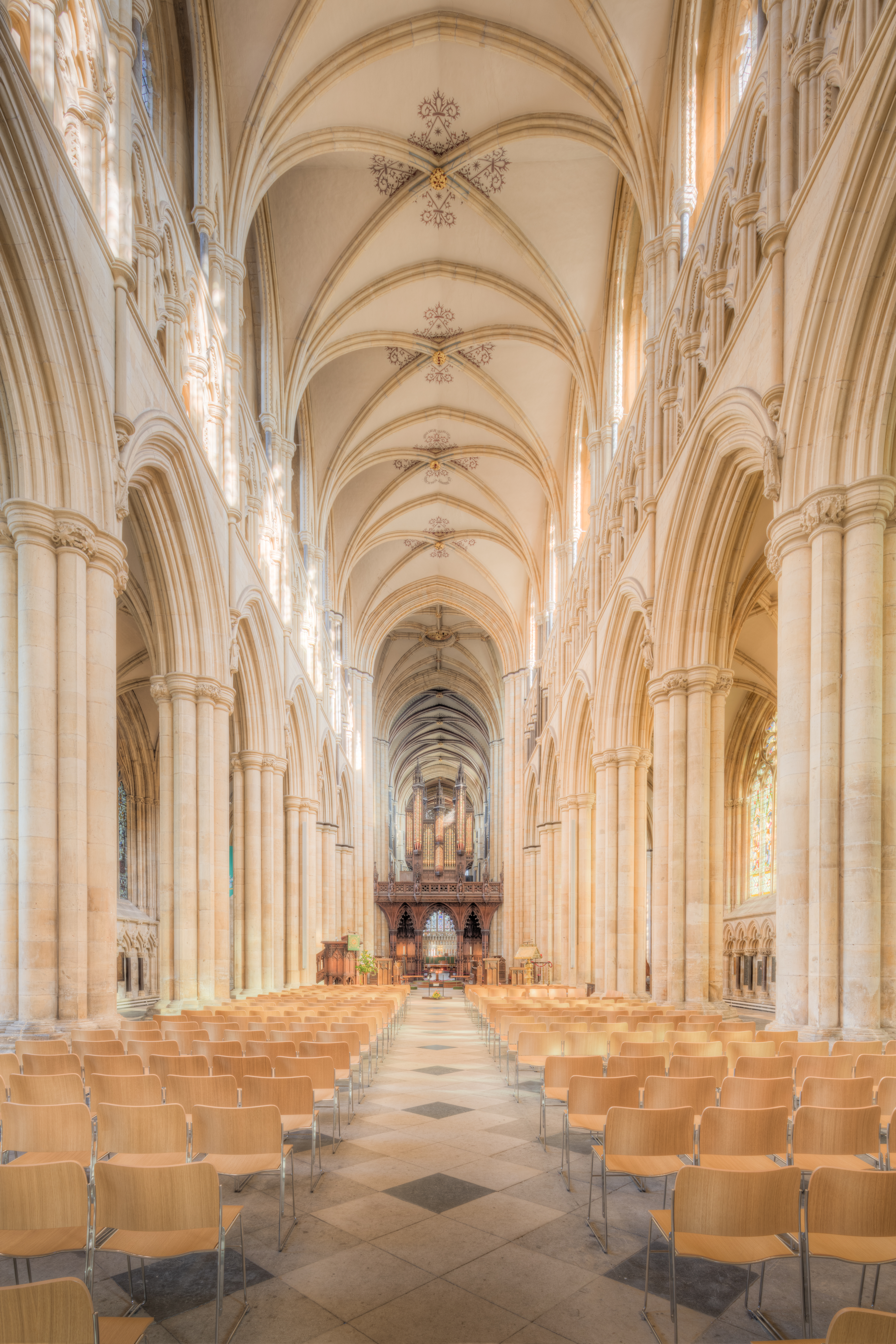 Here is an hdr photograph taken from the nave inside Beverley Minster. Located in Beverley, Yorkshire, England, UK.